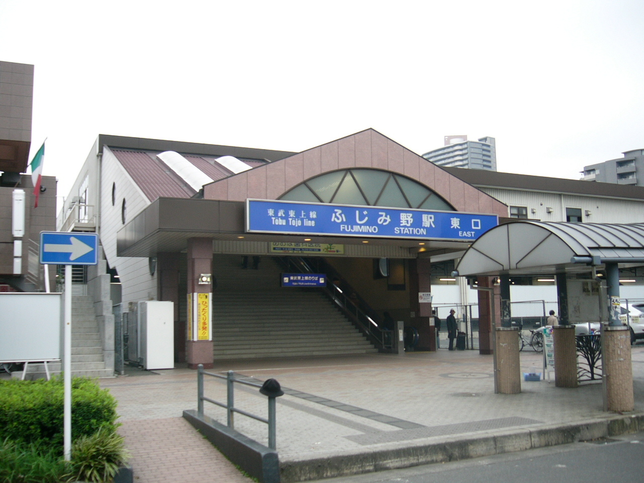 The east entrance of Fujimino Station on the Tobu Tojo Line